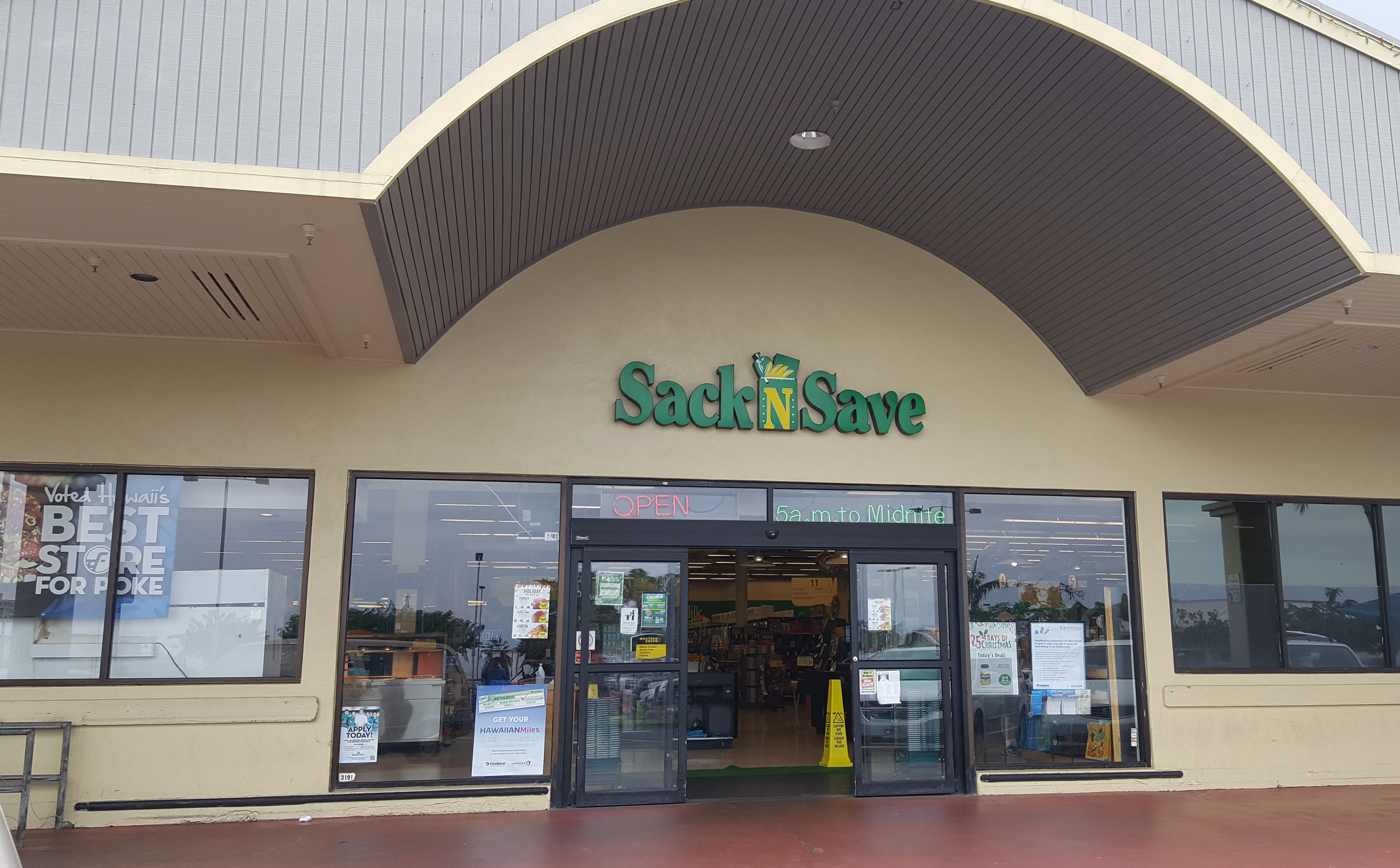 Sack 'n Save supermatket in Kailua Kona, Hawaii, USA